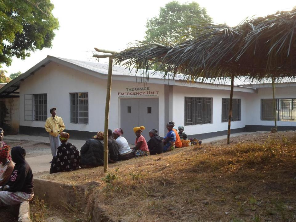 Internal hspital entrance to the Emergency Admission Unit, Masanga Hospital, Tonkolili District, Sierra Leone